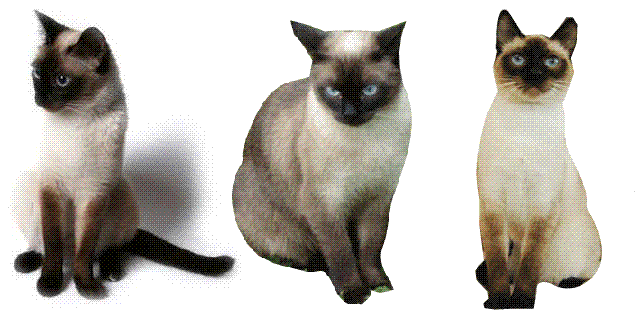 thai cats gatos thai, gatos siameses